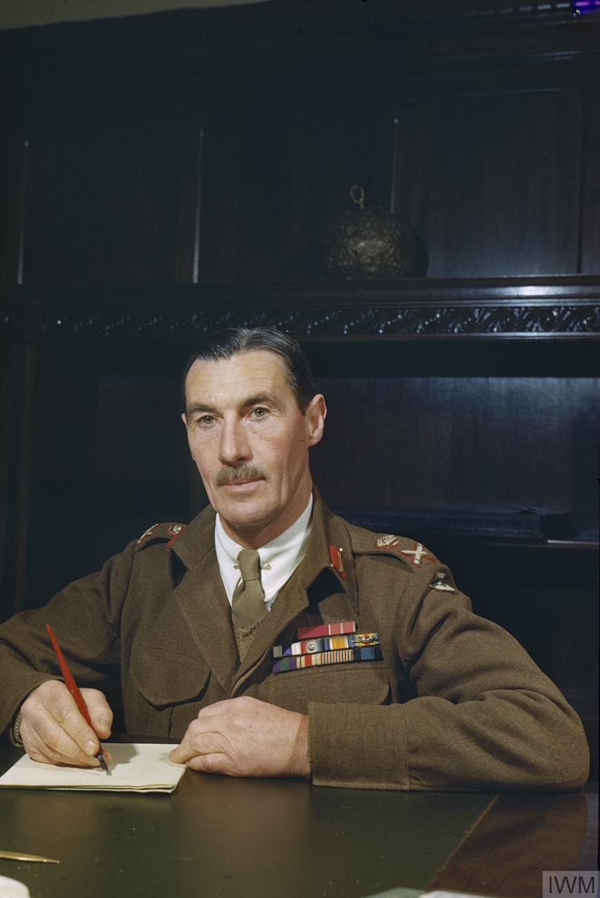 The Second World War- Personalities Lieutenant General R M Scobie CB, CBE, MC, General Officer Commanding Allied Land Forces Greece, at his desk at his headquarters in Athens.